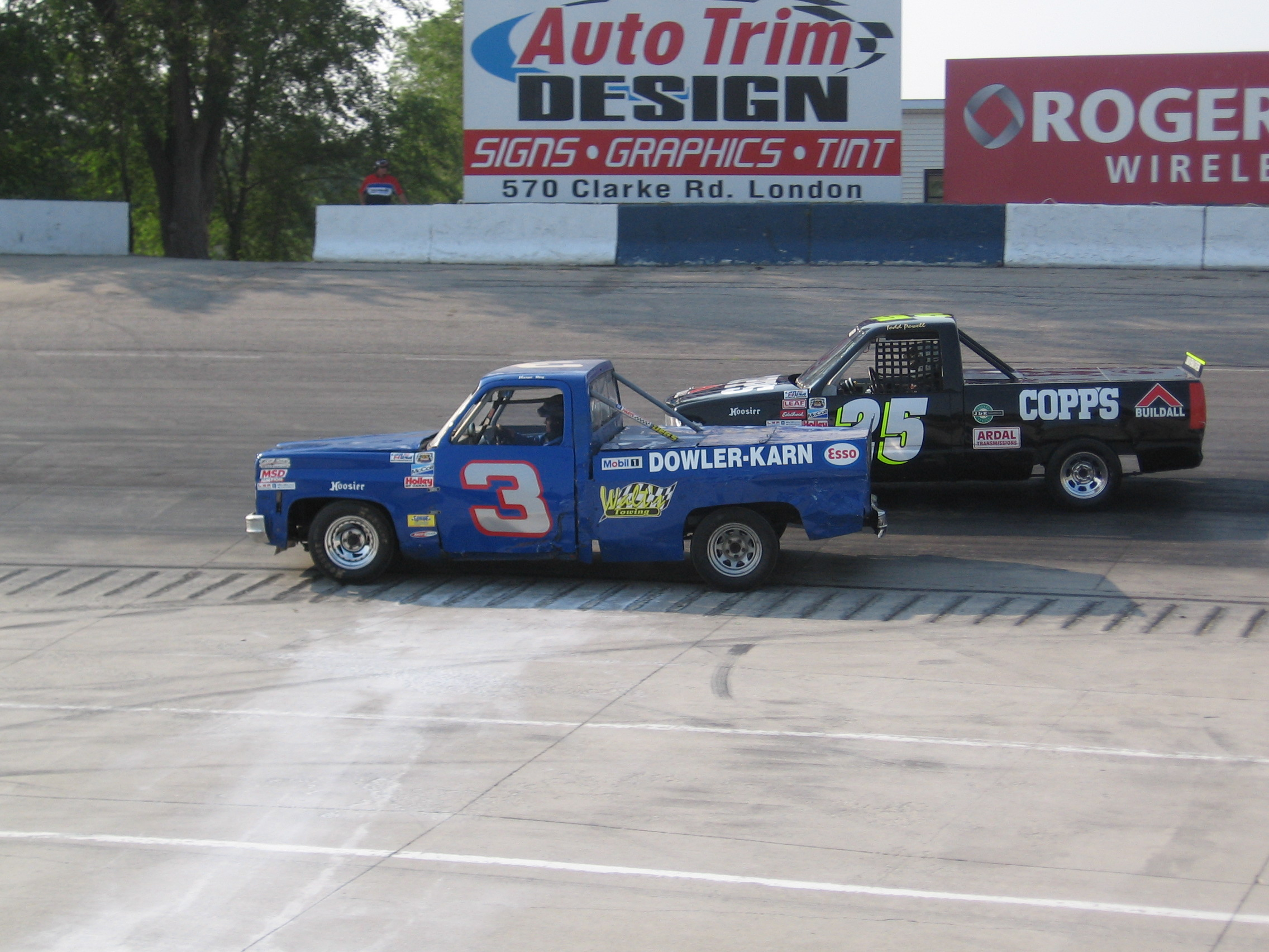 Photo of Delaware Speedway trucks in practice in 2006. Photo taken by myself.